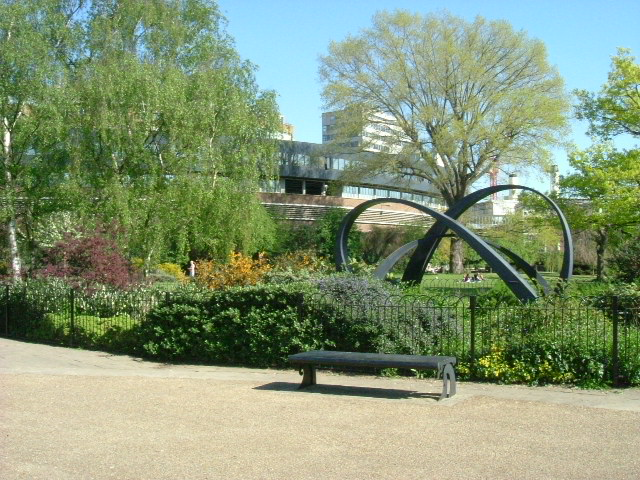 Hammersmith Park, W12 Hammersmith Park that's not in Hammersmith, (like Hammersmith Hospital isn't in Hammersmith either) with an art installation. The buildings at the back are part of the BBC television centre.